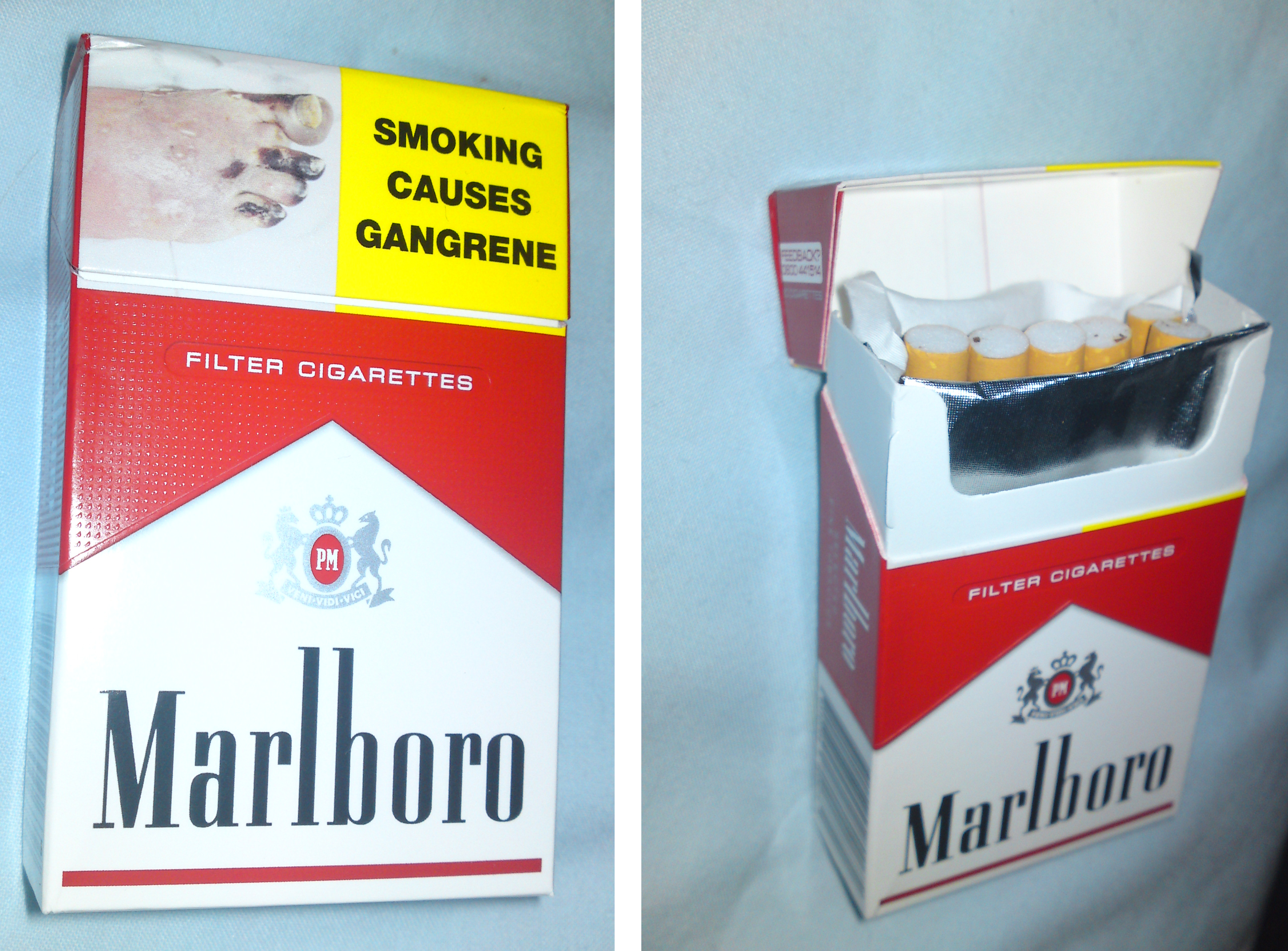 The front and top of 20 pack Marlboro red cigarettes. The pack shows typical New Zealand required warning messages.